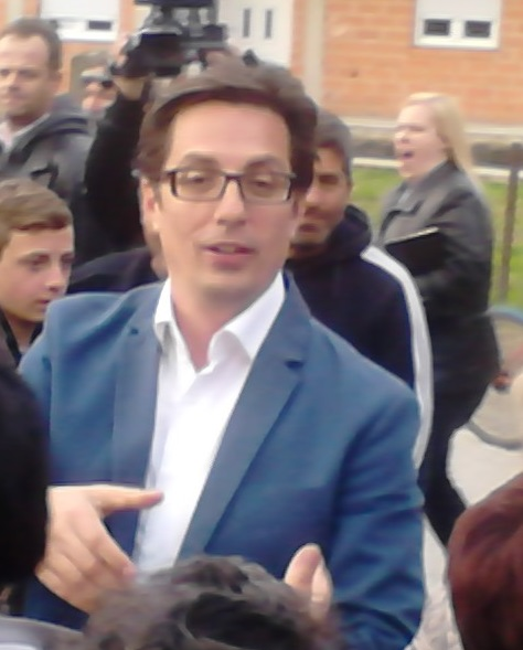 Stevo Pendarovski, Macedonian politician and a candidate for president of Macedonia in 2014, during a visit to Brvenica Municipality, Macedonia.